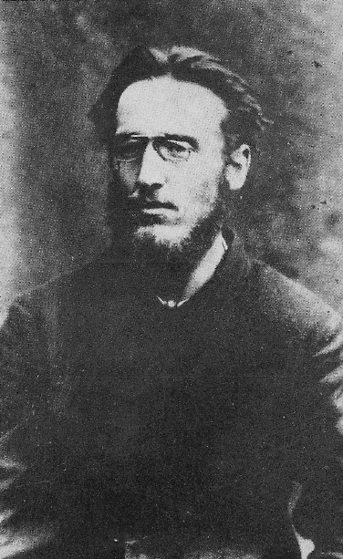 Ludwik Warynski, First Proletaryat founder